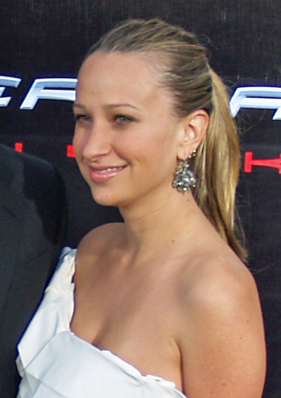 American actors Tobey Maguire and his wife Jennifer Meyer at the premiere of Spider-Man 3 in Queens, New York.